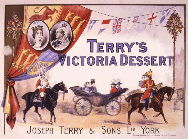 An 1897 advertisement for Joseph Terry & Sons.